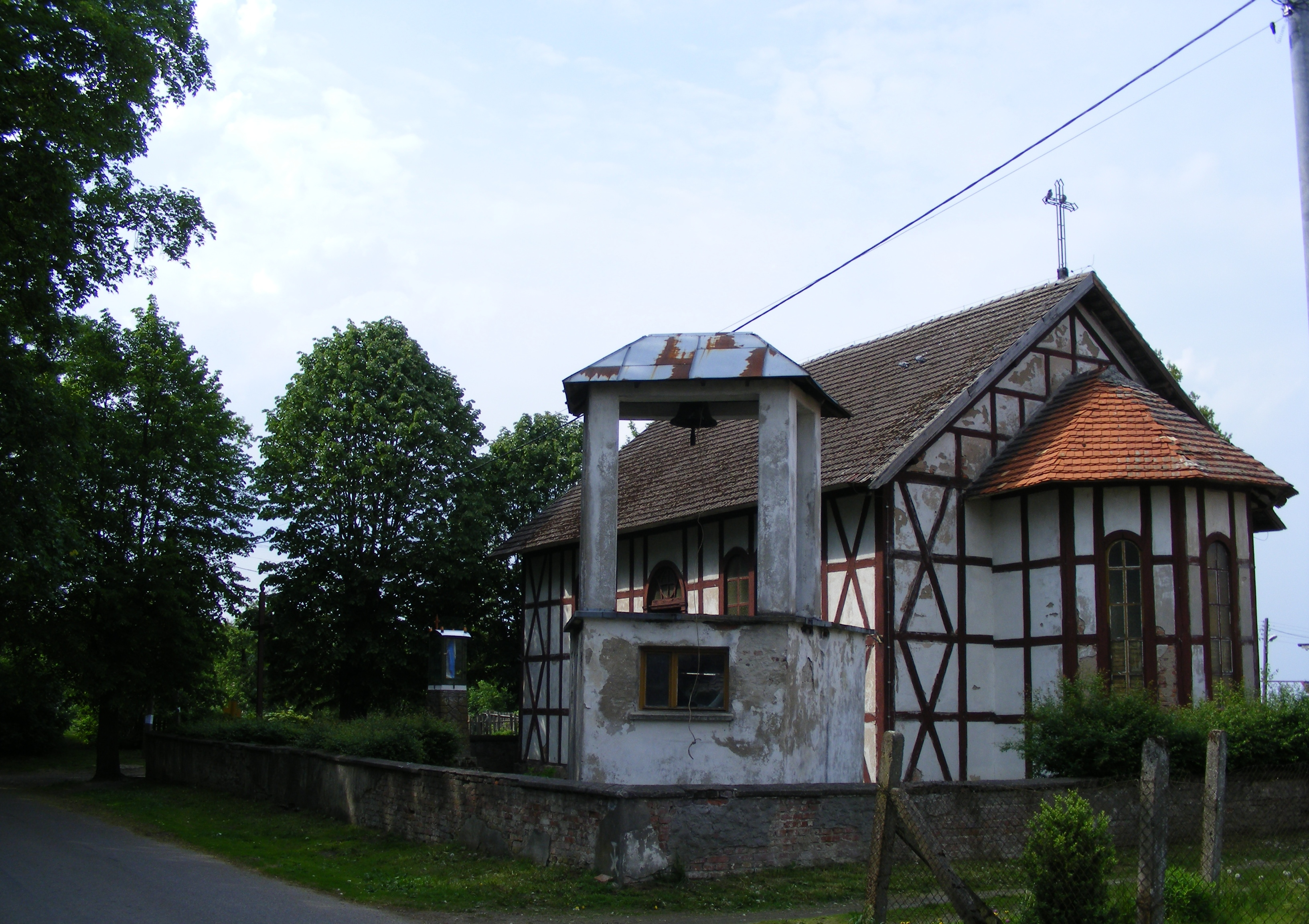 Saint Joseph church in Rzecino